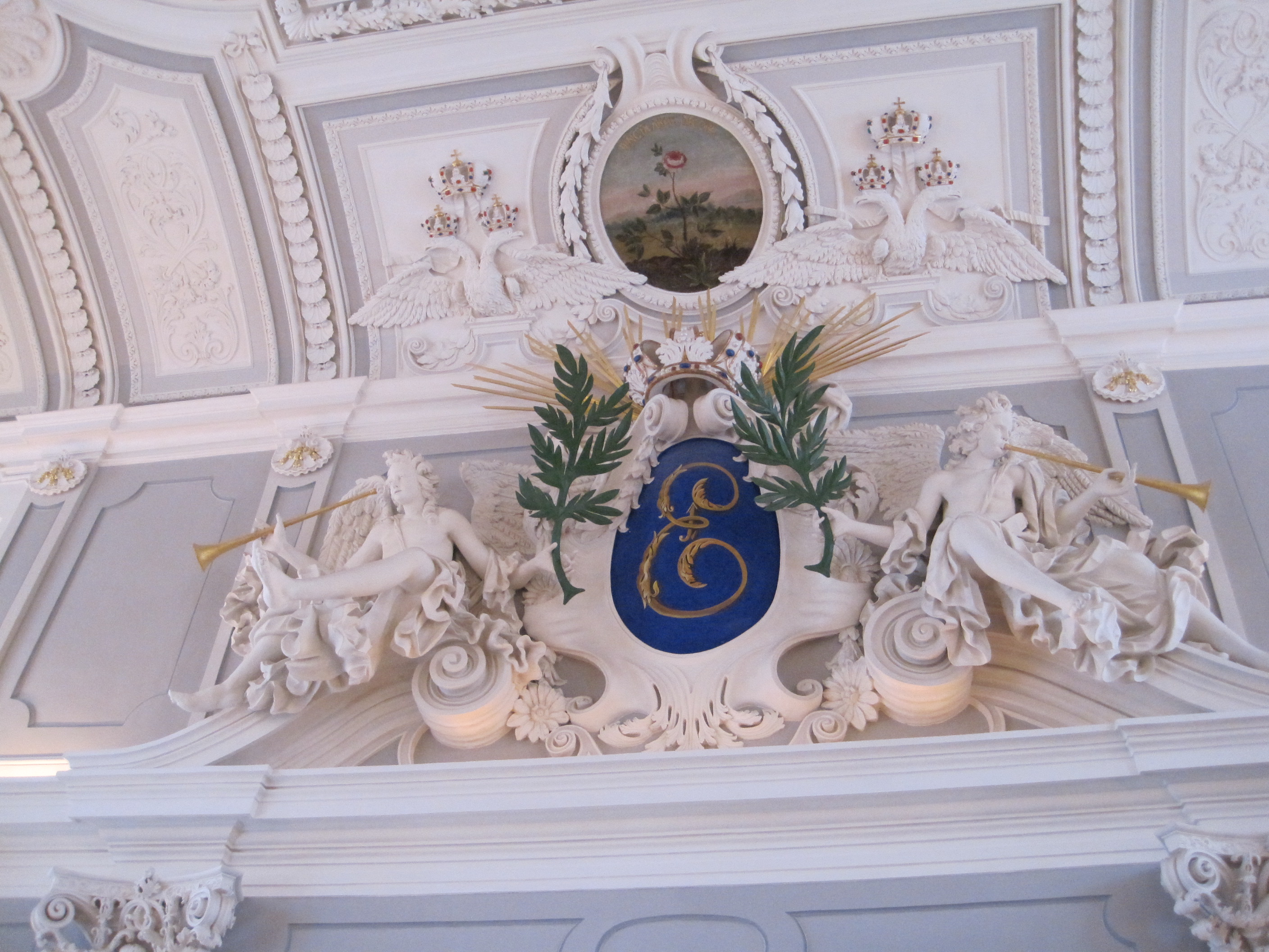 Ekaterina sign in main hall